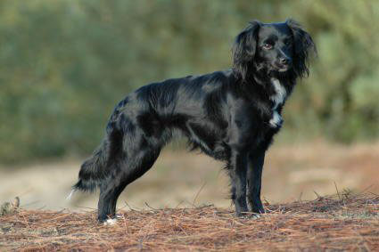 Markiesje dog.